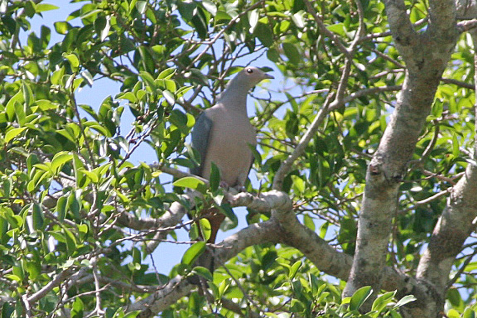 Pink-headed Imperial Pigeon (Ducula rosacea) at West Timor